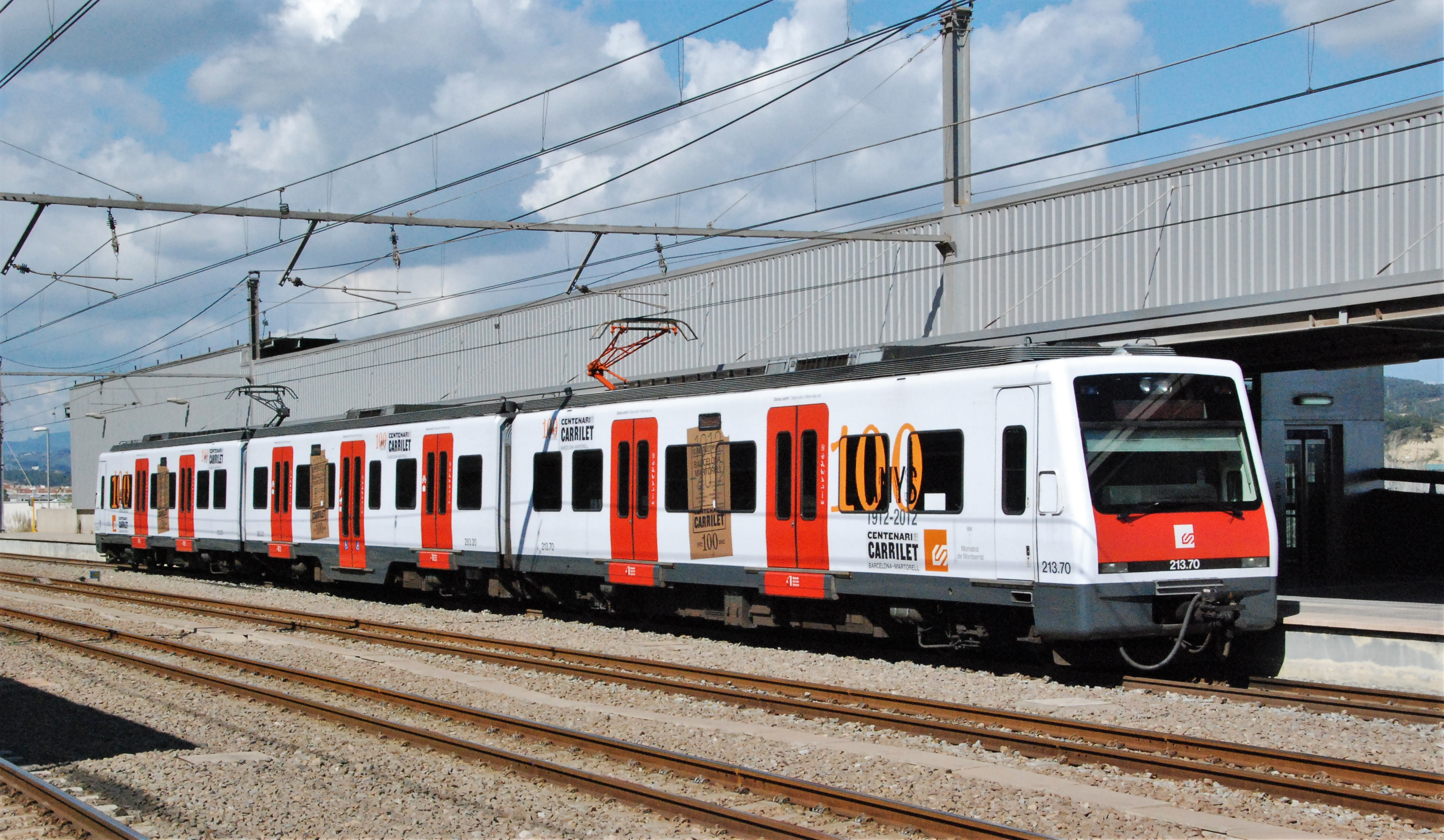 The EMU 213.20 of Ferrocarrils de la Generalitat de Catalunya at the station of Quatre Camins, advertising the centenary of the line between Barcelona and Martorell.